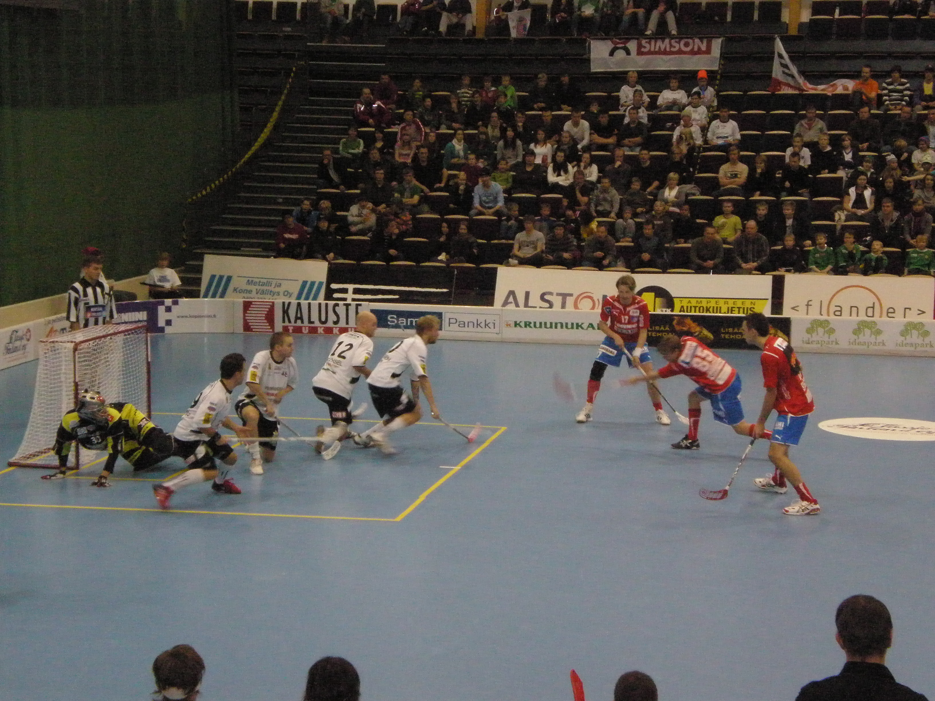 Floorball game Classic vs. SPV at the Tampere-areena. Classic is white and SPV red team.